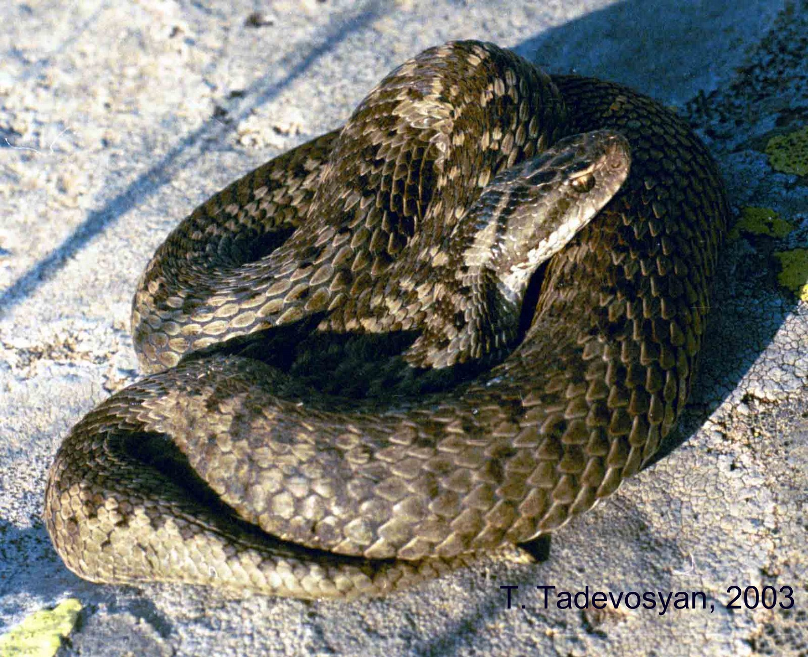 This photo of the female Darevsky's Viper was taken by me Jul 15, 2003 at the Achkasar Mountain in Armenia